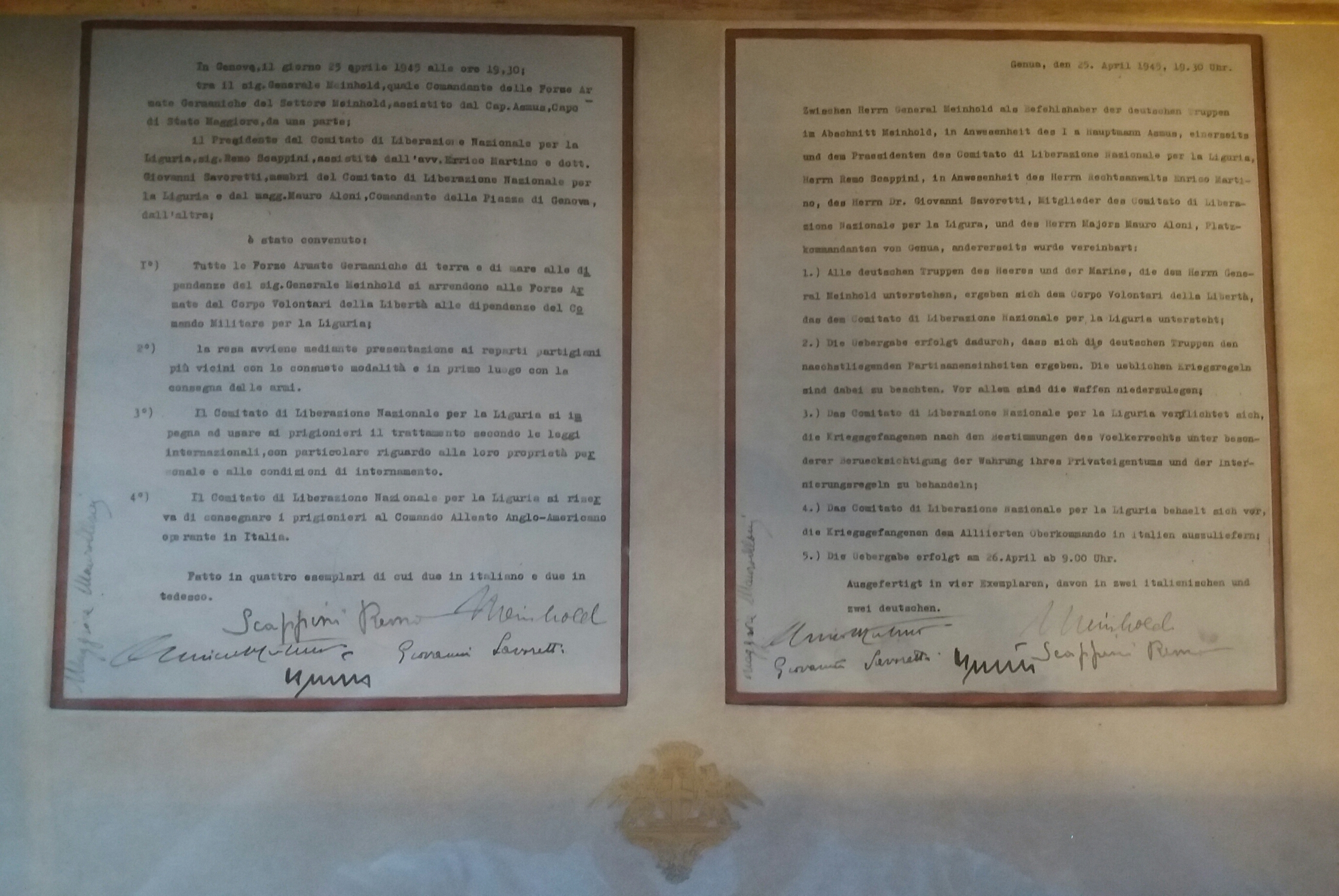 Act of yield of the German army to the CLN of Genoa, April 25, 1945